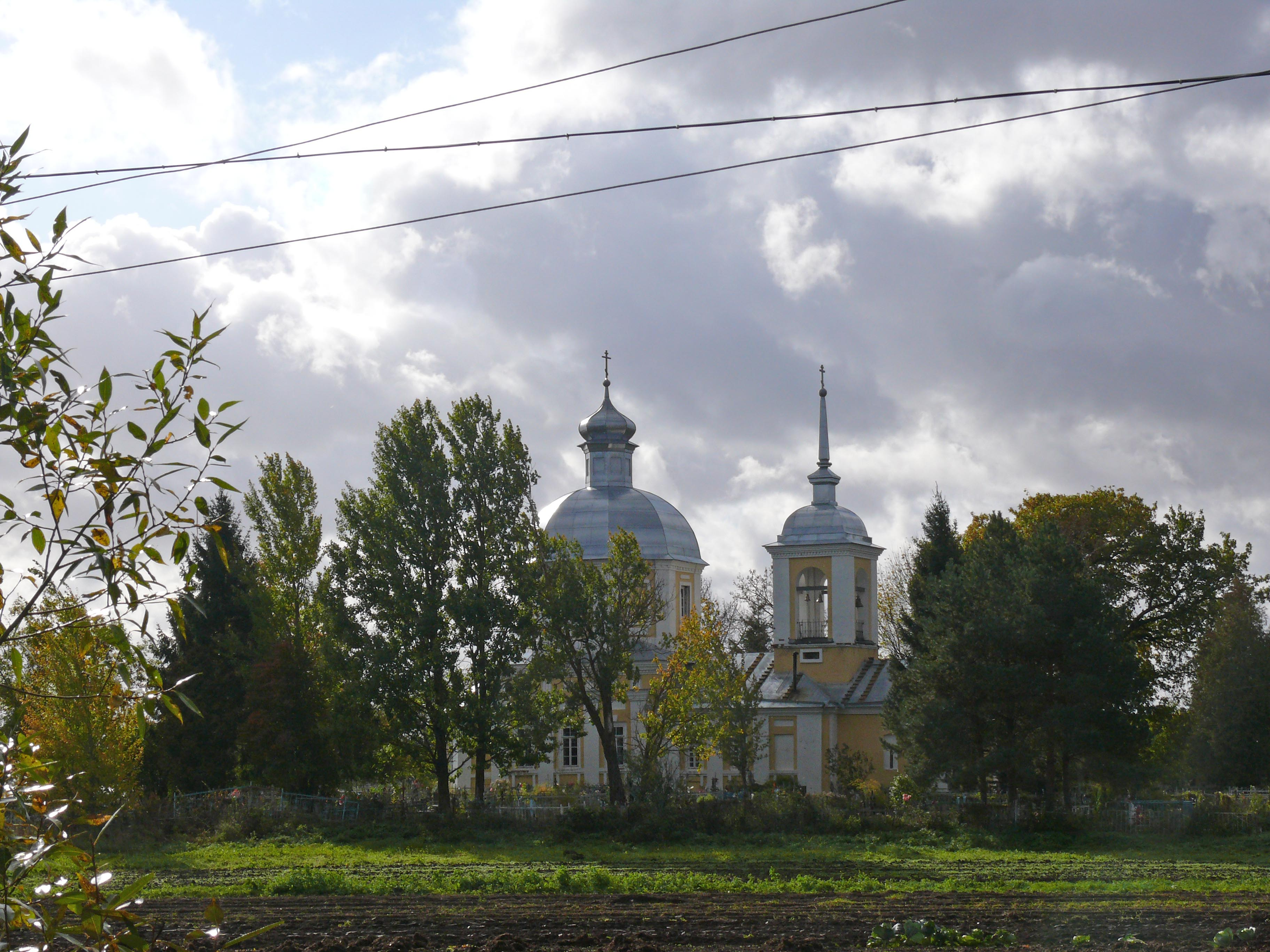 St. Lazarus church in Sergovo village, Novgorodsky district, Novgorod oblast, Russia